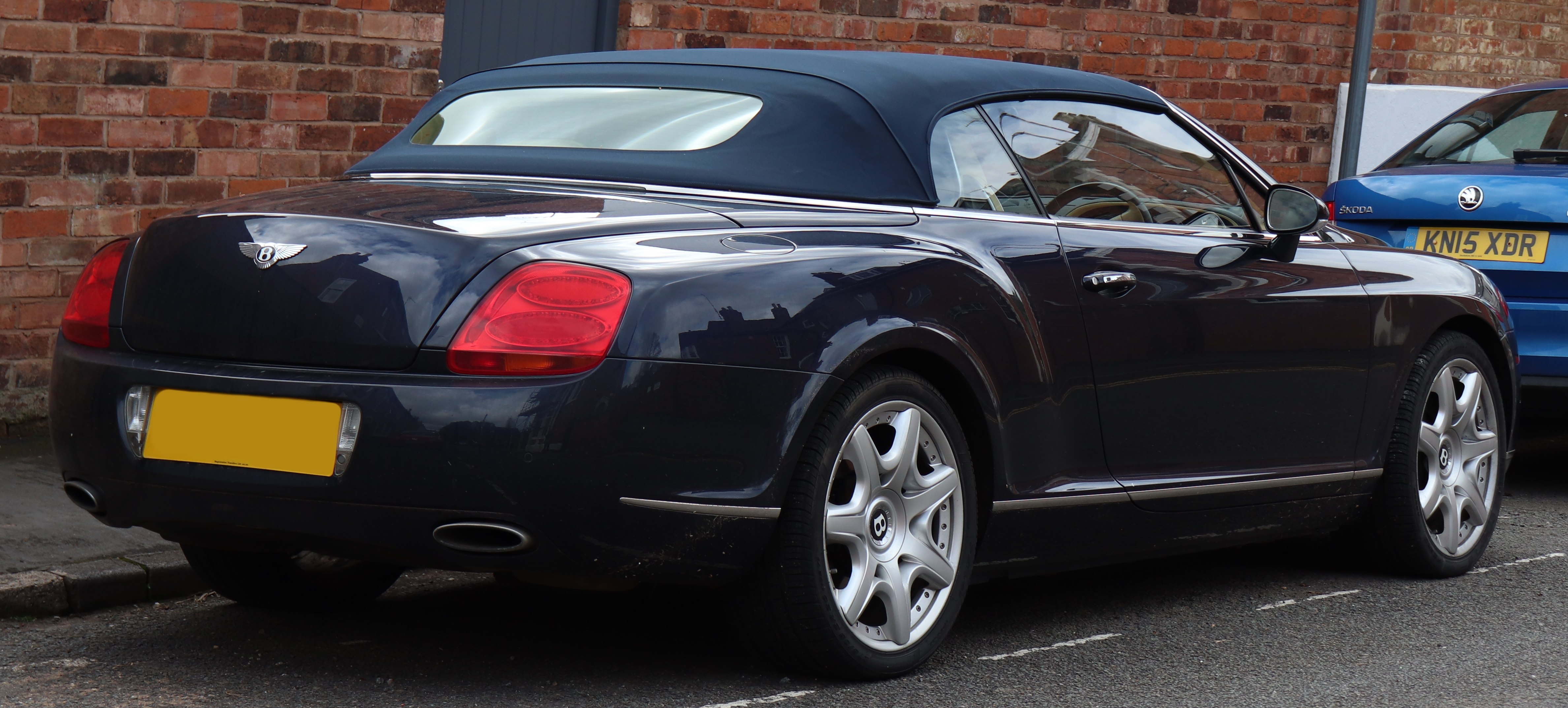 2009 Bentley Continental GTC Automatic 6.0 Rear Taken in Leamington Spa